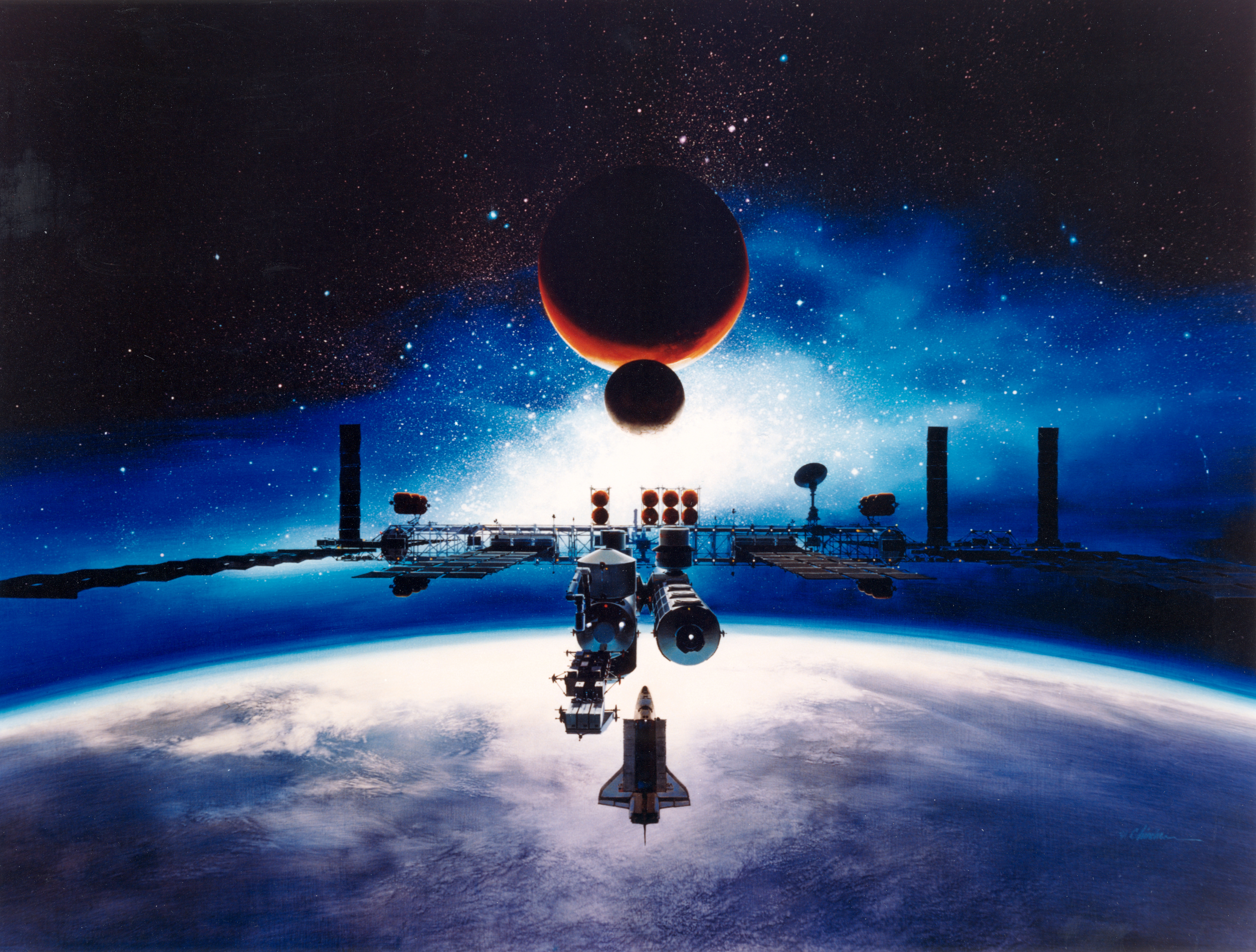 Alan Chinchar's 1991 rendition of the Space Station Freedom in orbit. The painting depicts the completed space station. Earth is used as the image's backdrop with the Moon and Mars off in the distance. Freedom was to be a permanently crewed orbiting base to be completed in the mid 1990s. It was to have a crew of four. Freedom was an attempt at international cooperation that attempted to incorporate the technological and economic assistance of the United States, Canada, Japan and nine European nations. The image shows four pressurized modules (three laboratories and a habitat module) and six large solar arrays which were expected to generate 56,000 watts of electricity for both scientific experiments and the daily operation of the station. Space Station Freedom never came to fruition. Instead, in 1993, the original partners, as well as Russia, pooled their resources to create the International Space Station.